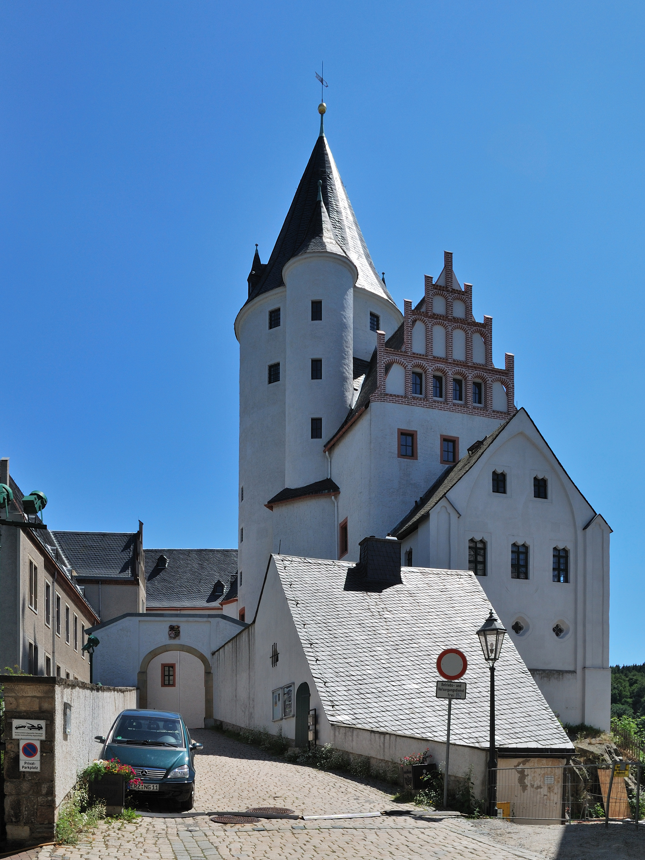 Castle Schwarzenberg, Saxony in Germany.